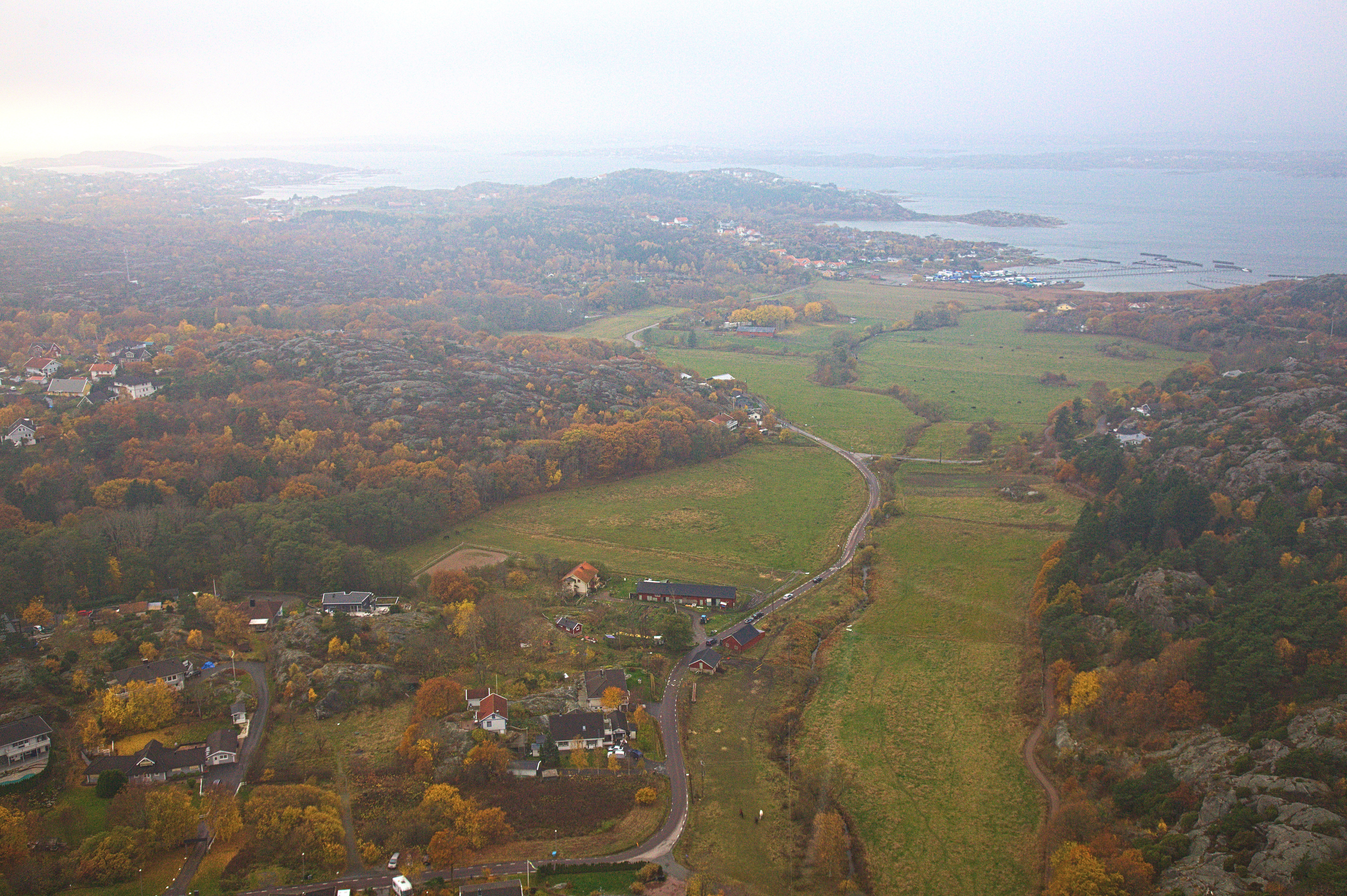 Photo taken on at helicopter over Gothenburg. The creec Madbäcken and the villages Mossen bottom left and Tumlehed further away. The marina is Norra Hästeviken and the road is Tumlehedsvägen.